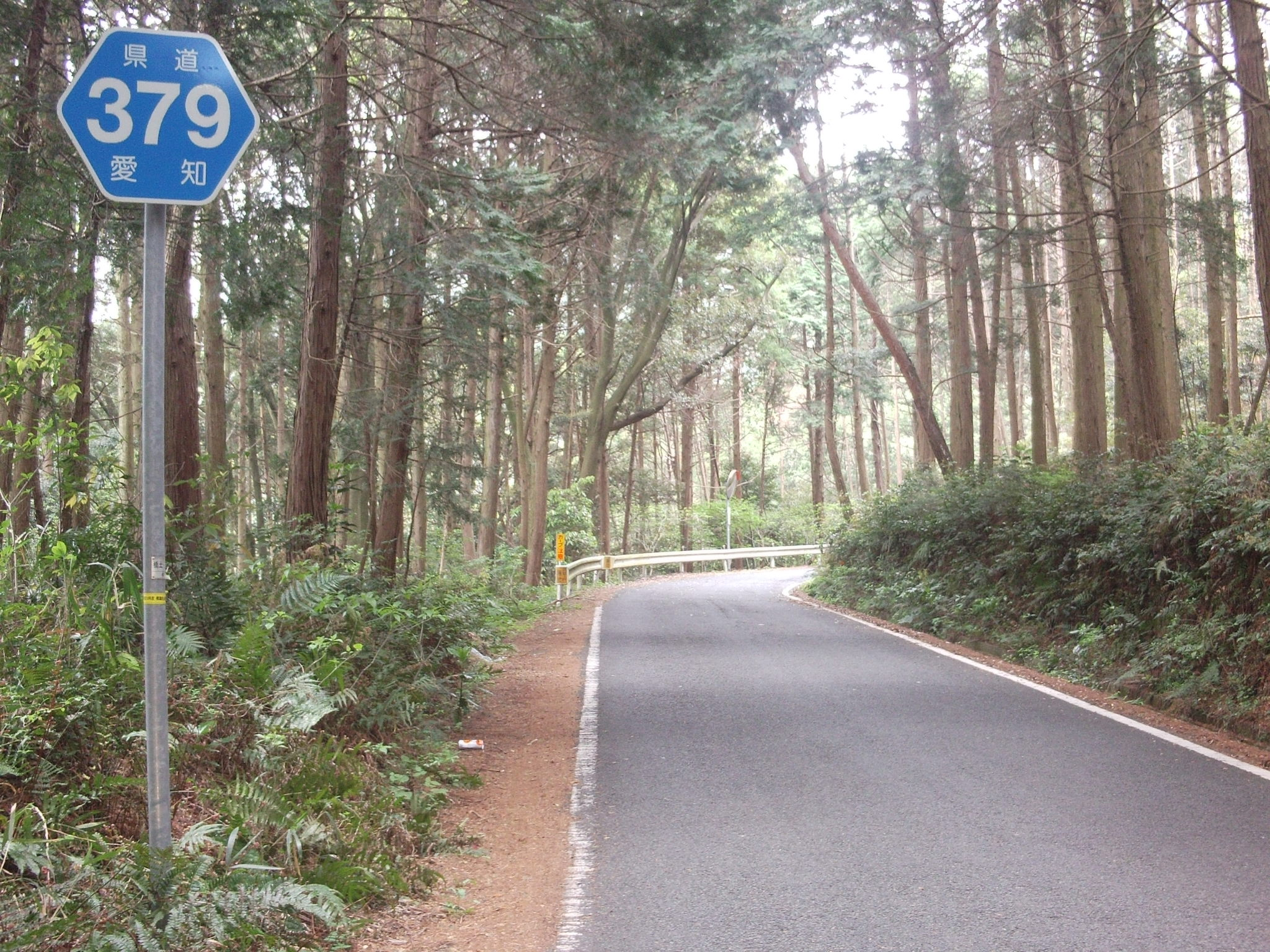 Aichi prefectural road No.379 in Ishimakicho, Toyohashi, Aichi.